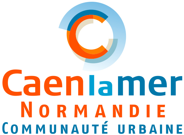 Logo Caen la mer Normandie Communauté urbaine